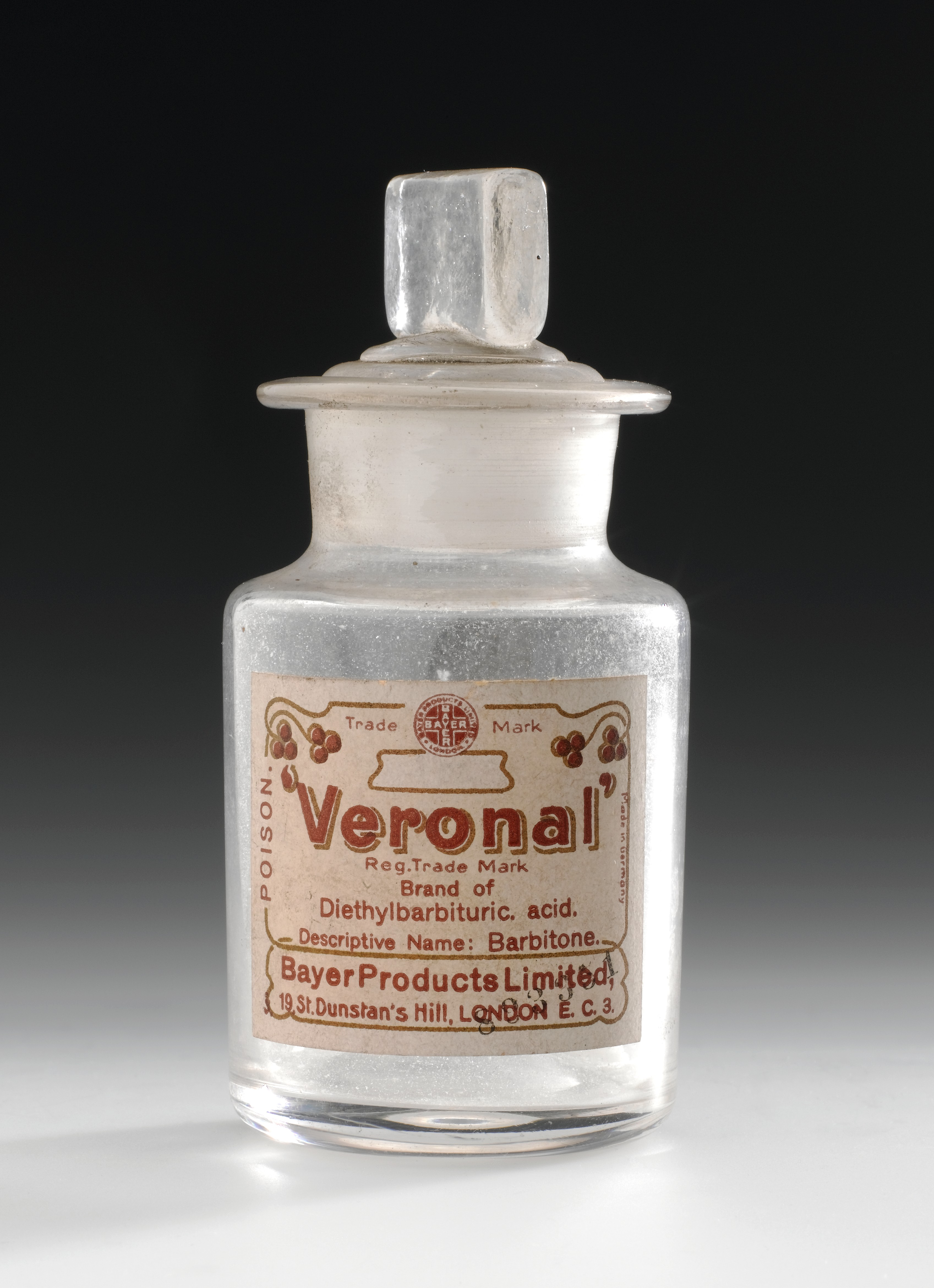 ‘Veronal’ is the trade name for a barbiturate drug used to treat mental illness. ‘Veronal’ was the first commercially available barbiturate, sold from 1903 onwards, and was named after the Italian city of Verona. Barbiturates were used to induce sleep by suppressing brain function and were also used as a hypnotic. They were popular up to the 1950s and were an improvement on their predecessors as the side effects were less severe – although unfortunately they could be extremely addictive. Barbiturates are only available on prescription. maker: Bayer Products Limited Place made: Germany Wellcome Images Keywords: barbiturate; psychotropic drug